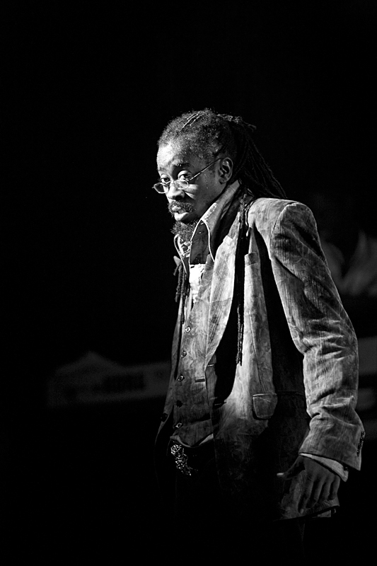 Beenie Man performing on August 10, 2008.